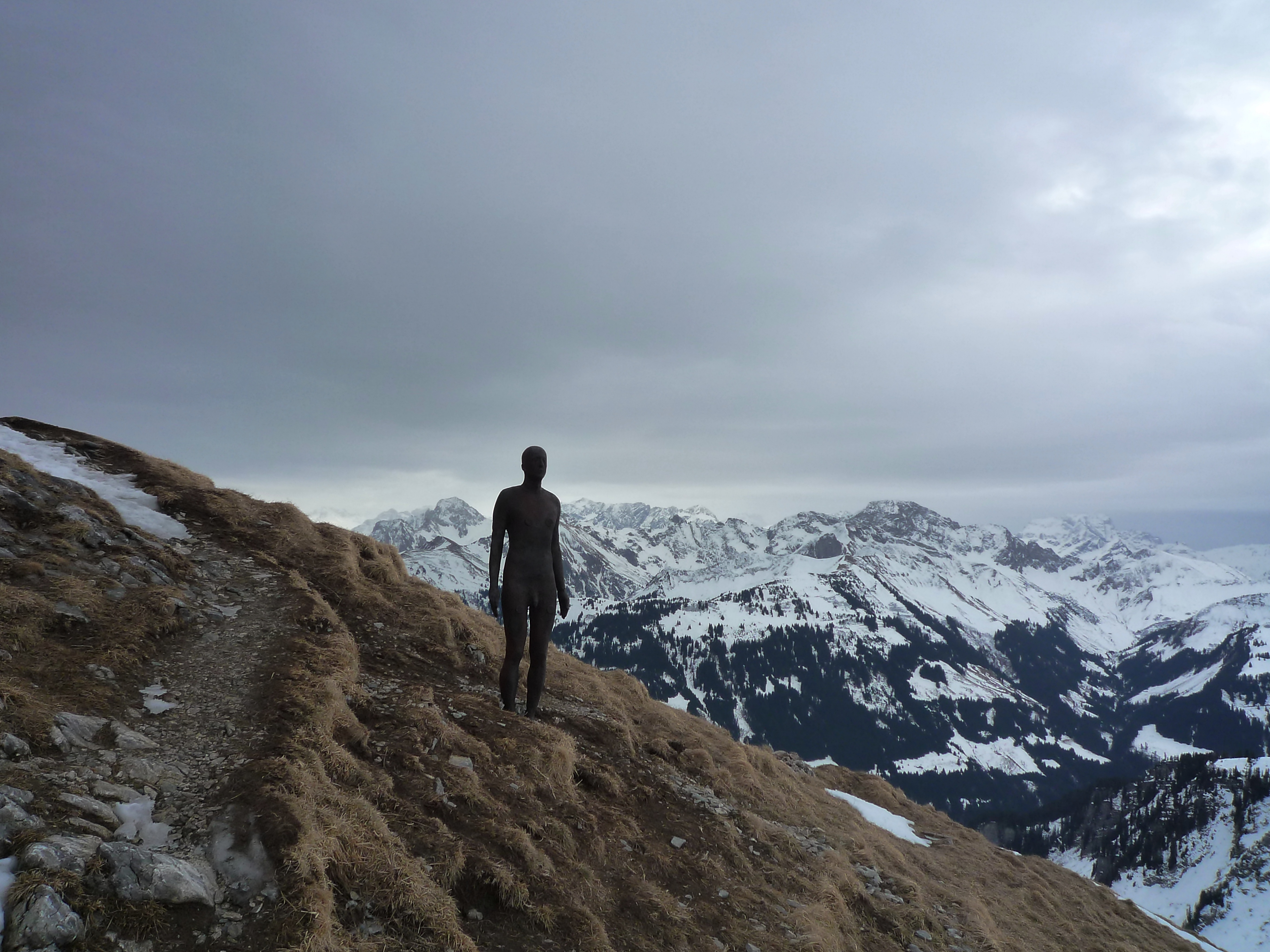 Statue-installation of the Horizon Field-Project by Antony Gormley on the Kanisfluh (2044 m), in the background Hochkünzelspitze (2397 m), Braunarlspitze (2645 m) und Zitterklapfen (2403 m).